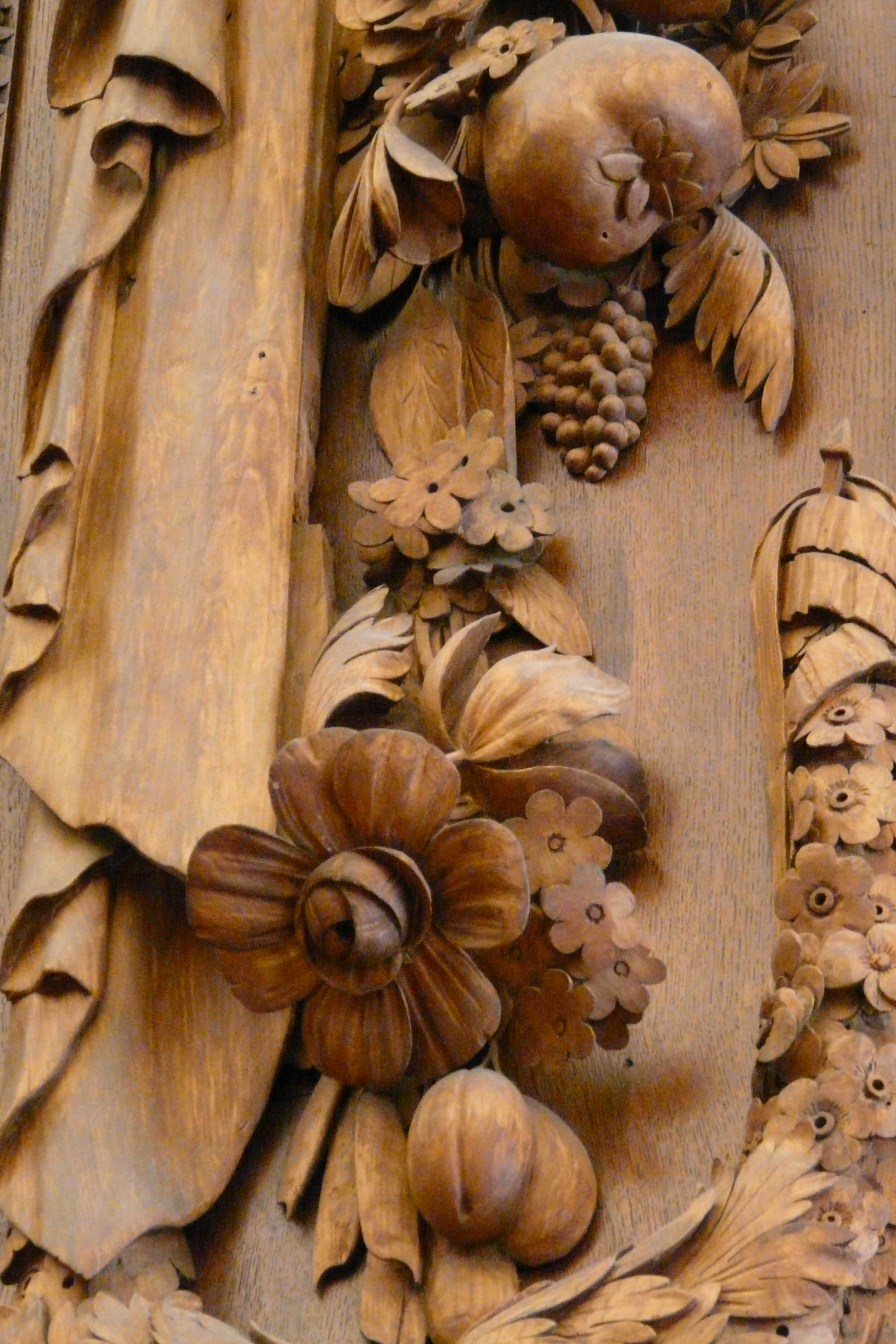 Wood carving by Grinling Gibbons in the apartments of king William III at Hampton Court Palace